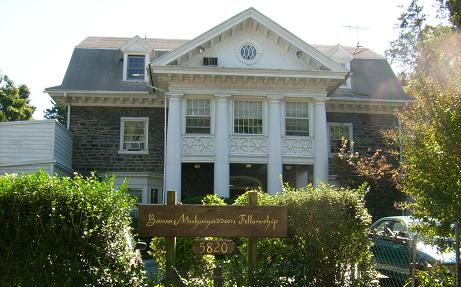 Bawa Muhaiyaddeen Fellowship at 5820 Overbrook Ave., Philadelphia, Pennsylvania, USA